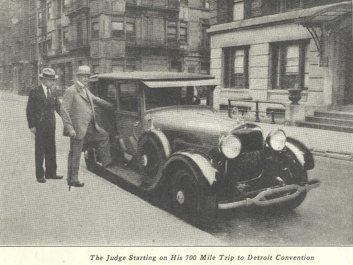 Judge J.F. Rutherford getting into his 16 cylinder Cadillac in front of Watchtower headquarters in New York on his way to the 1928 Convention in Detroit, Michigan. Rutherford was president of the Watchtower Bible and Tract Society and gave the group the name "Jehovah's Witnesses" in 1931. Picture originally appeared in the 1928 Messenger. Copyright for the Messenger was not renewed and the picture is in the public domain. Picture was scanned from the original magazine.